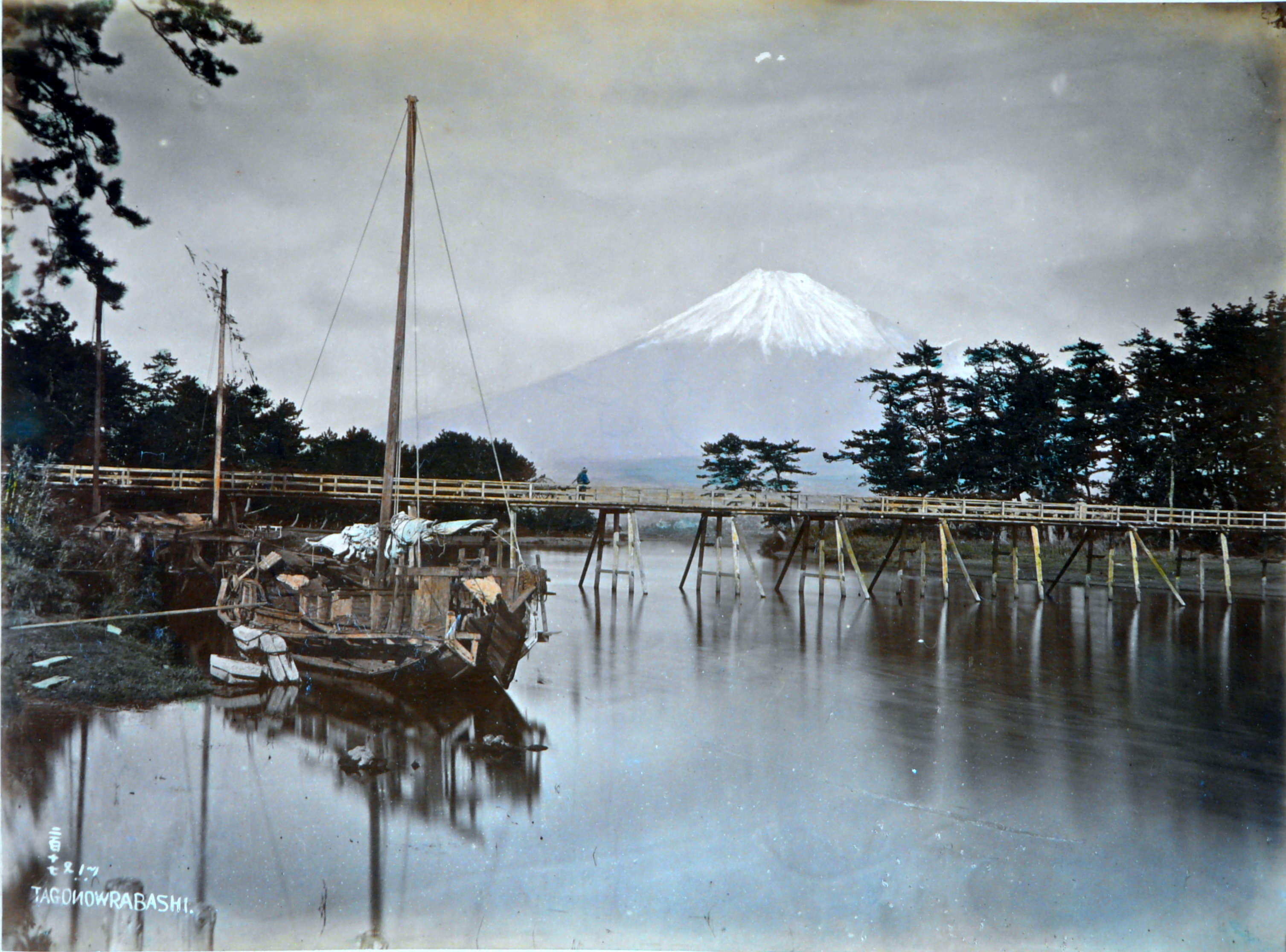 Painted photograph from Japan, dating from before 1886, according to a written note on the album containing the photographs. Presumed Author of the original photographs: Adolfo Farsari.